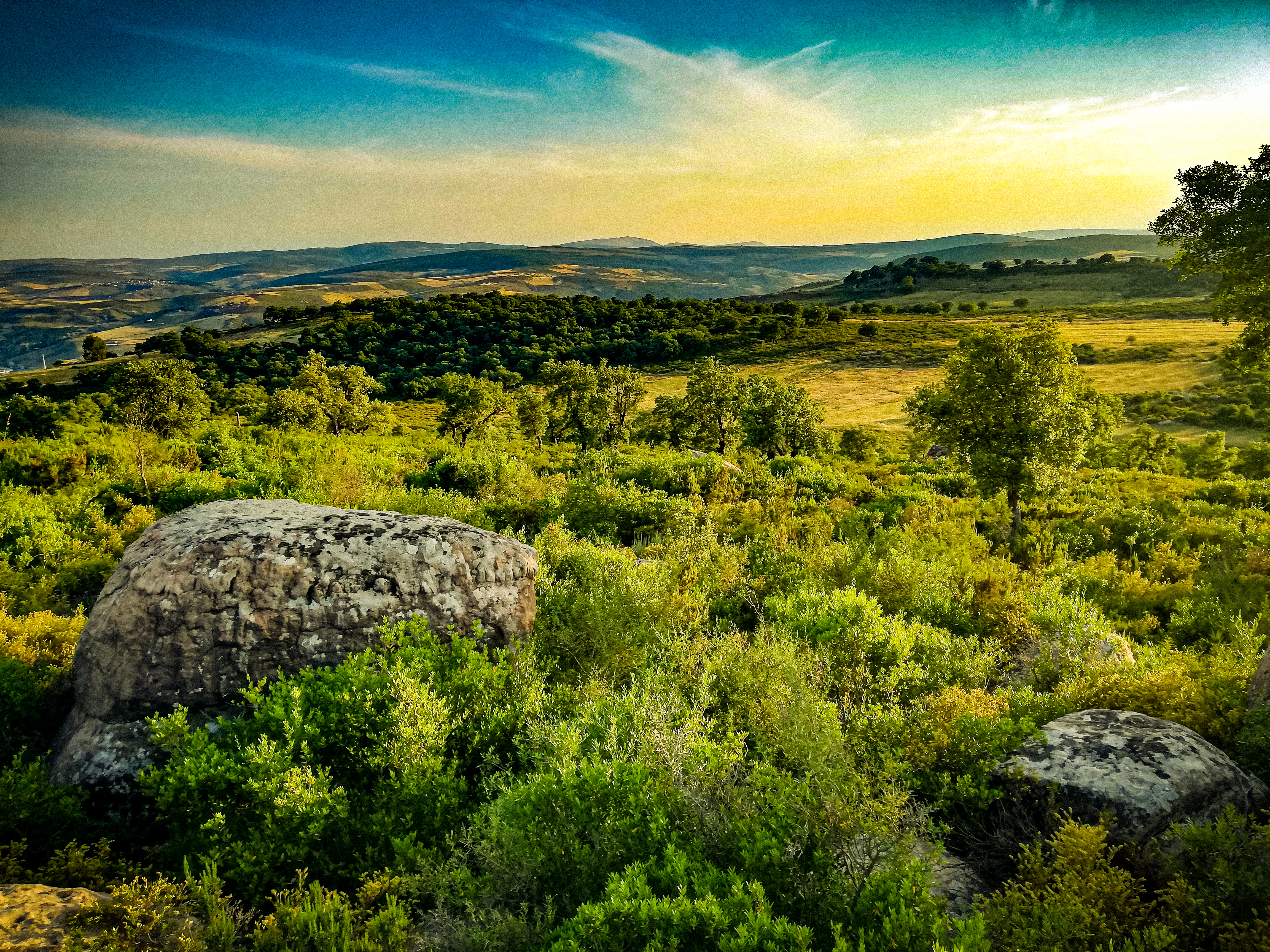 Larebaa beni medjaled, Bordj Sabath, Guelma Mountain in june